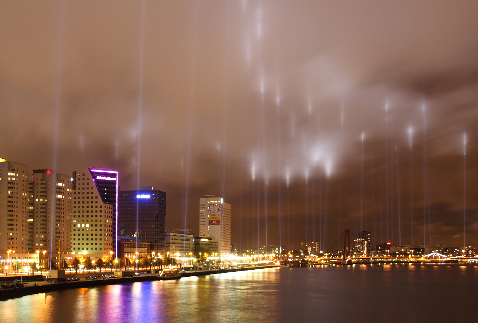 Fireline of the Rotterdam, commemoration of the May 1940 bombardement by Nazi Germany.